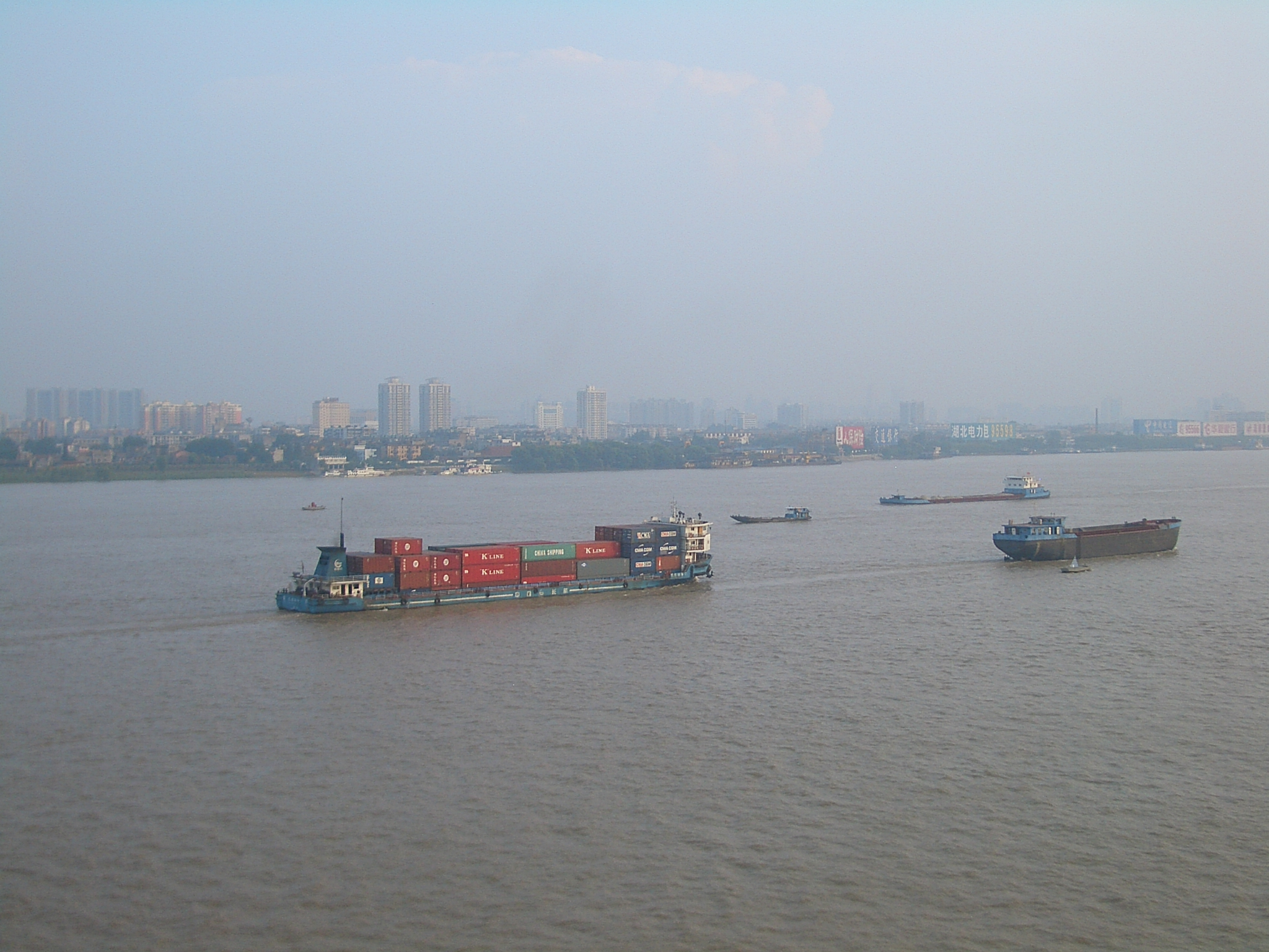 Cargo boats on the Changjiang (Yangtze River) in Wuhan, seen from the Second Changjiang Bridge.